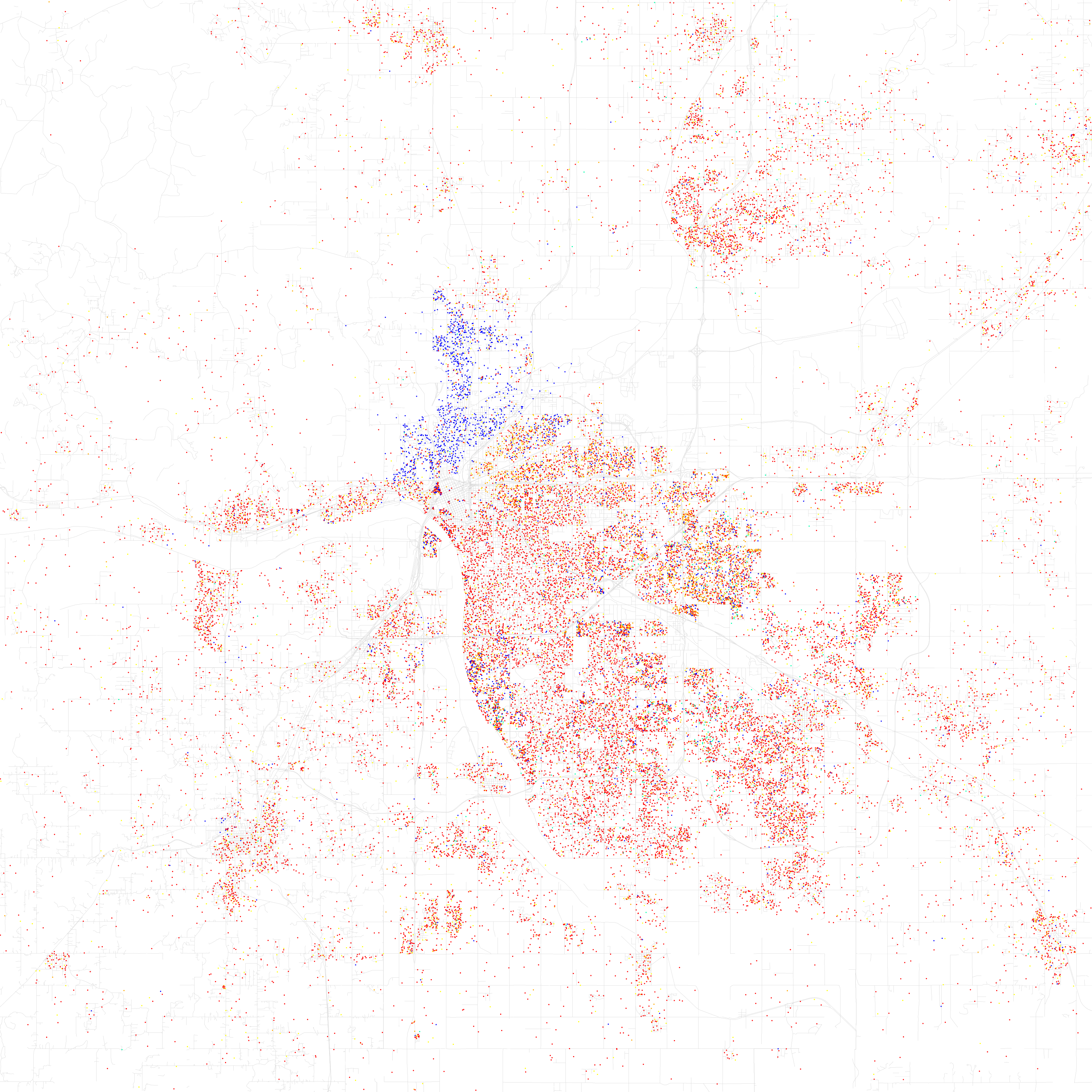 Maps of racial and ethnic divisions in US cities, inspired by Bill Rankin's map of Chicago, updated for Census 2010. Red is White, Blue is Black, Green is Asian, Orange is Hispanic, Yellow is Other, and each dot is 25 residents. Data from Census 2010. Base map © OpenStreetMap, CC-BY-SA